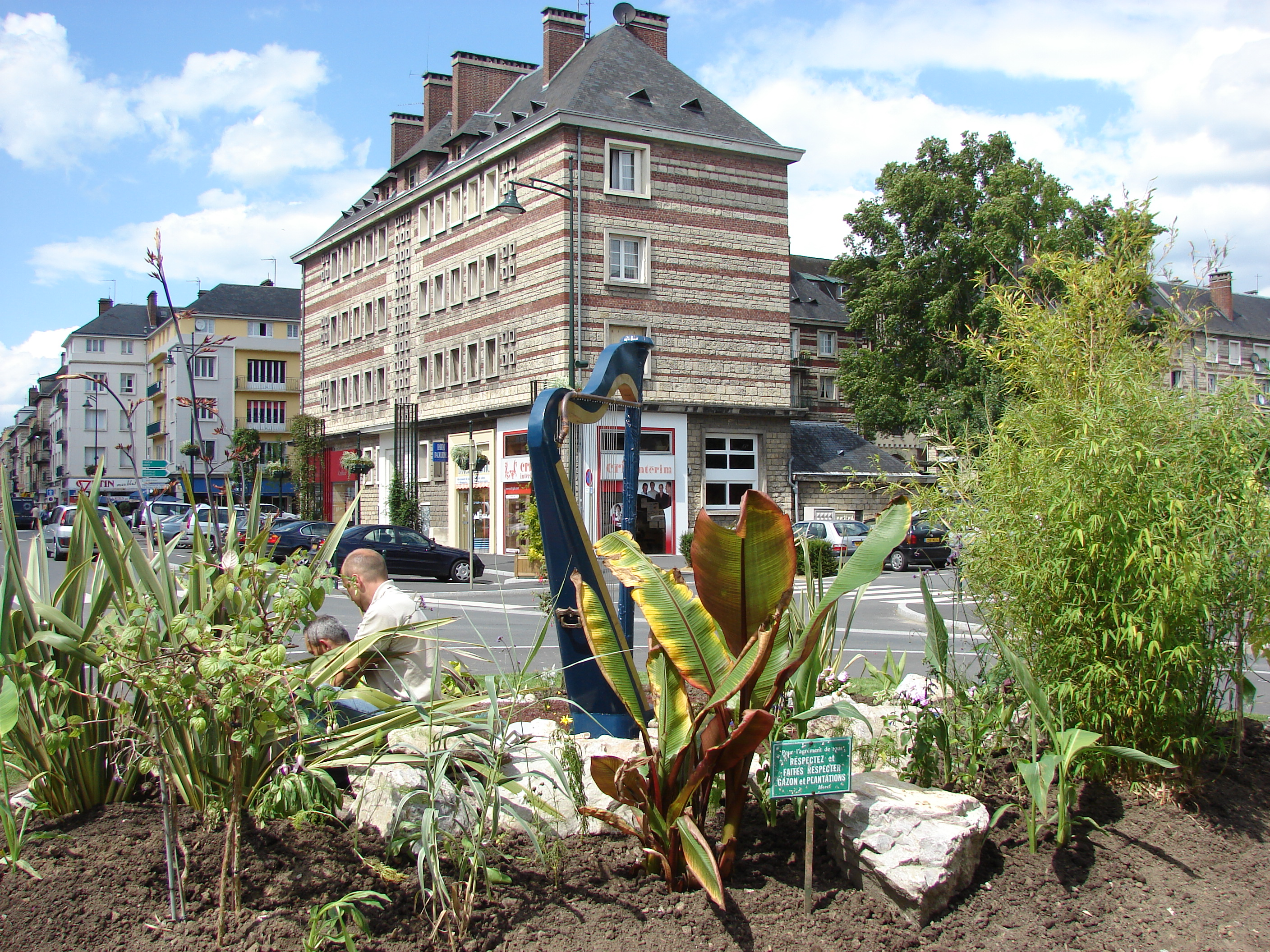 Area of the circle